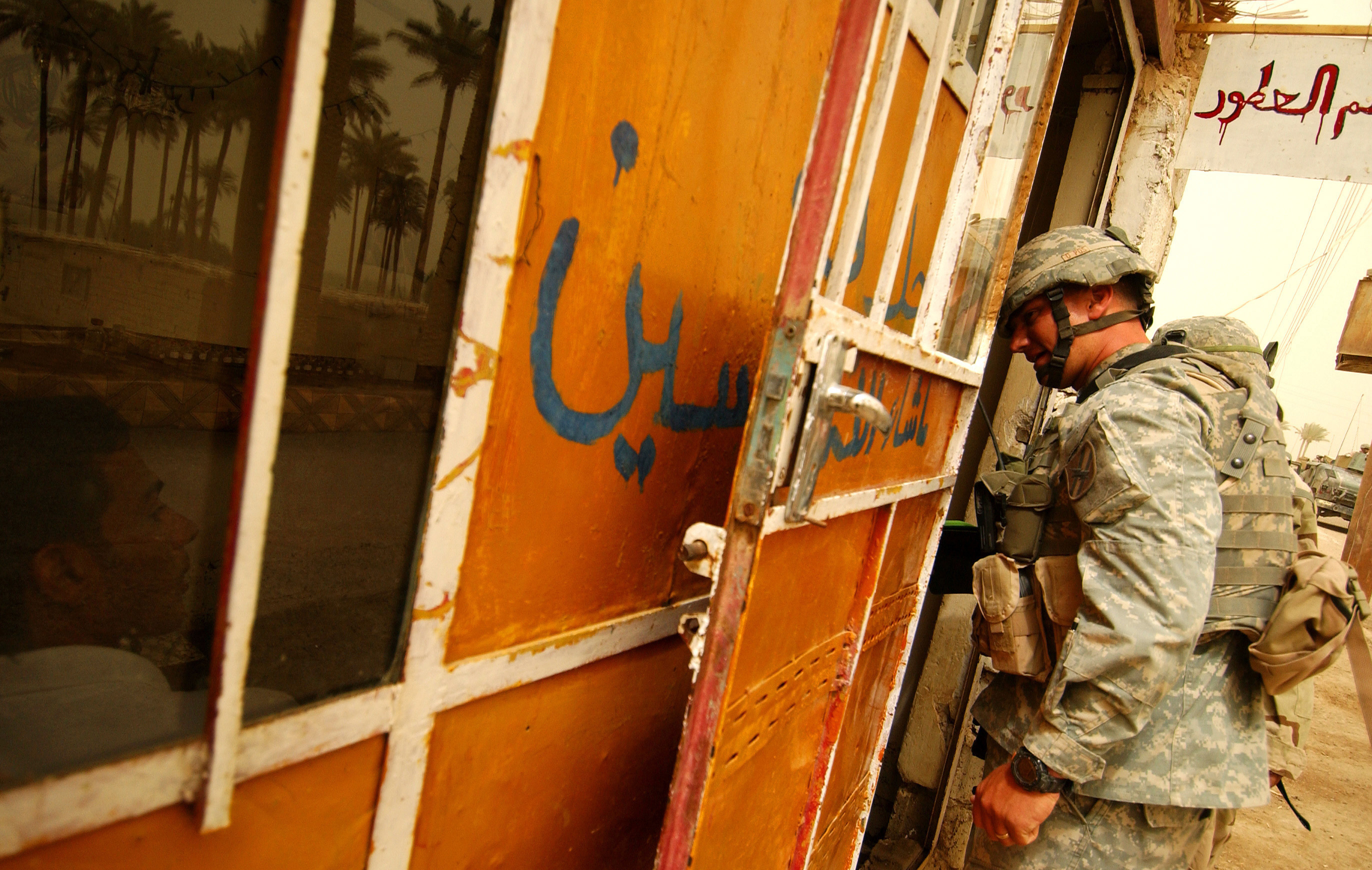 Army Lt. Roy Miller from the 2nd Battalion, 121st Headquarters and Headquarters Company, ducks his head into a shop as he conducts an information operation in a small town near Baghdad, Iraq, on June 23, 2005.